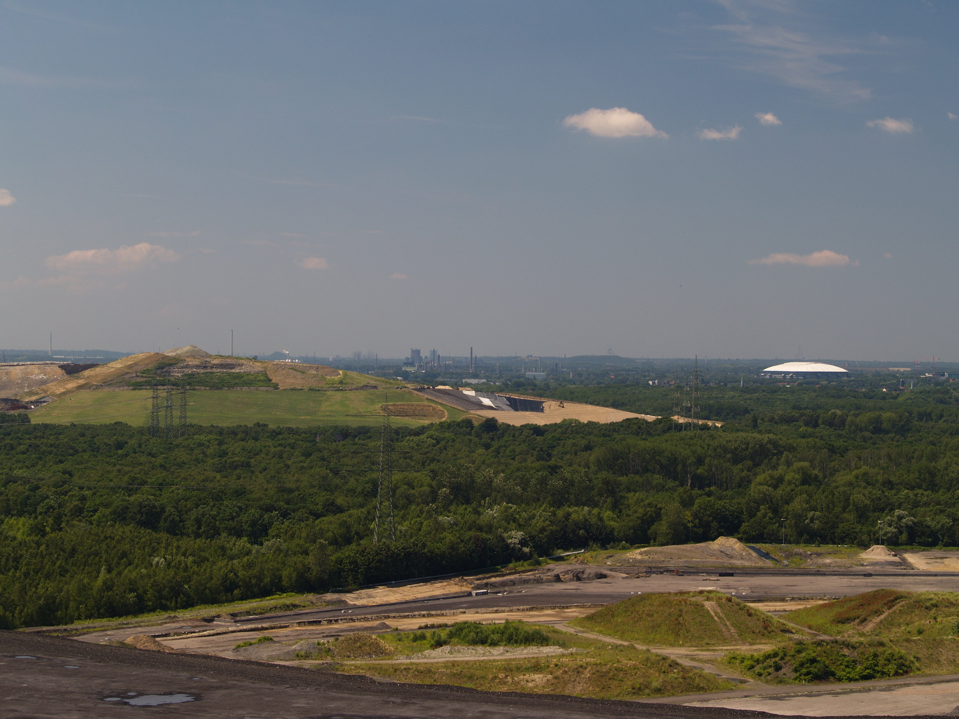 View from Halde Hoheward direction west